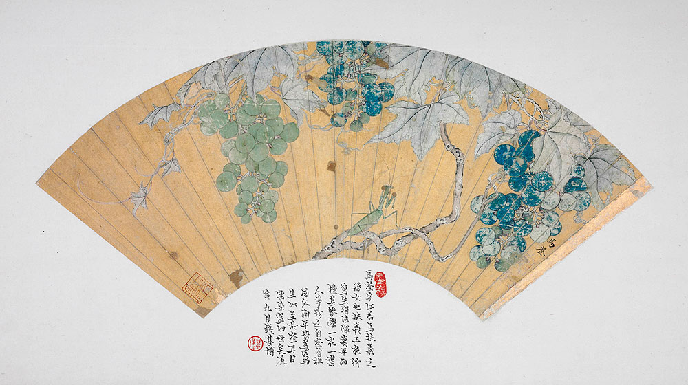 Grapes and mantis, Ma Quan, Hunan Museum. Postscript by Qian Jibo. Housed in Hunan Museum. 36 x 17 cm.